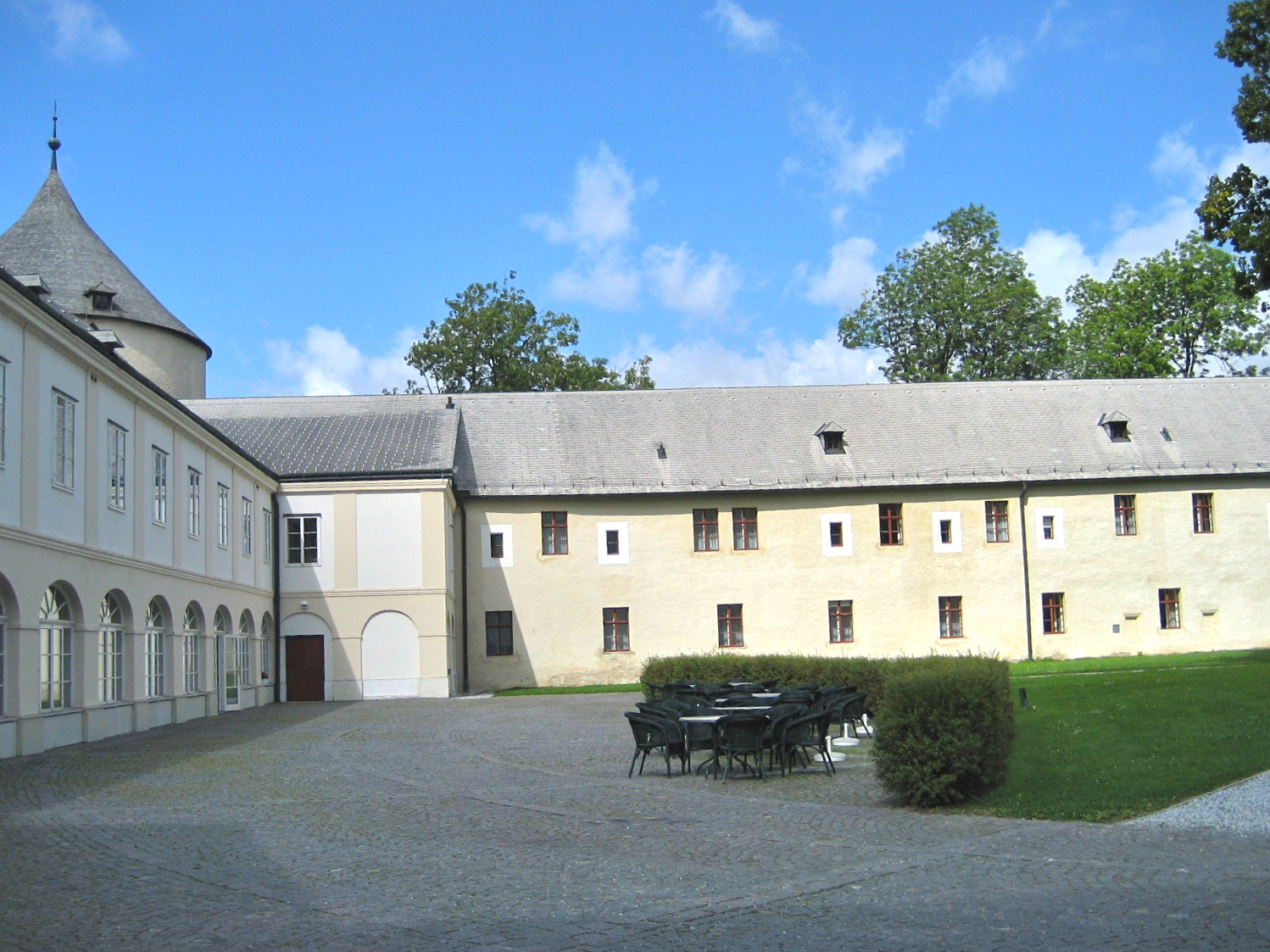 Ottenschlag Castle Ottenschlag may have been founded by Otto von Lautisdorf in 1100. The castle, with its three towers was started in 1523 and the Haupttor or main gate is dated 1556. In 1596 Ottenschlag was the scene of armed conflict during the peasant uprisings. During the Reformation in the 16th Century Ottenschlag became a center of Protestantism. In the Thirty Years' War the Swedes besieged the castle and ruined place and church. Ottenschlag was a staging point on the Imperial Poststrasse (postal route) to Bohemia. The town has been ravaged by fire on six occasions, most recently in 1911. On 20 April 1945 Ottenschlag was bombed by the Russians bombers when 56 houses were hit.